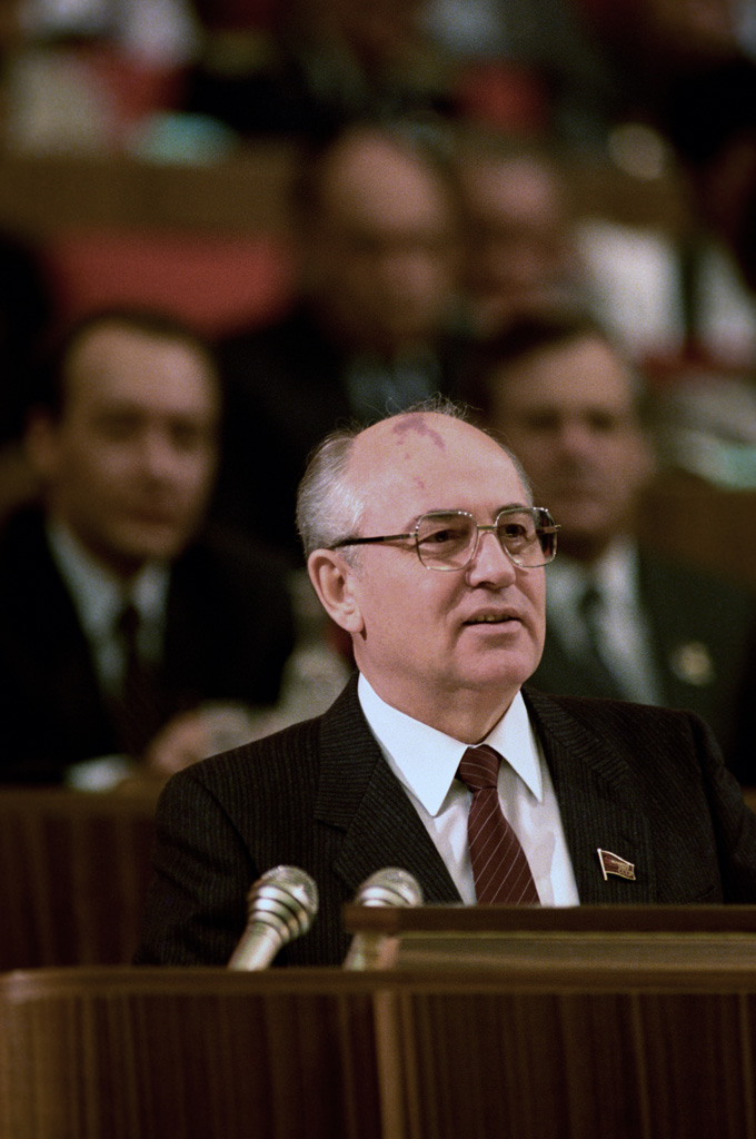 “General Secretary of the CPSU CC M. Gorbachev”. General Secretary of the CPSU Central Committee Mikhail Gorbachev speaking at the 20th Congress of the VLKSM. Kremlin Palace of Congresses.